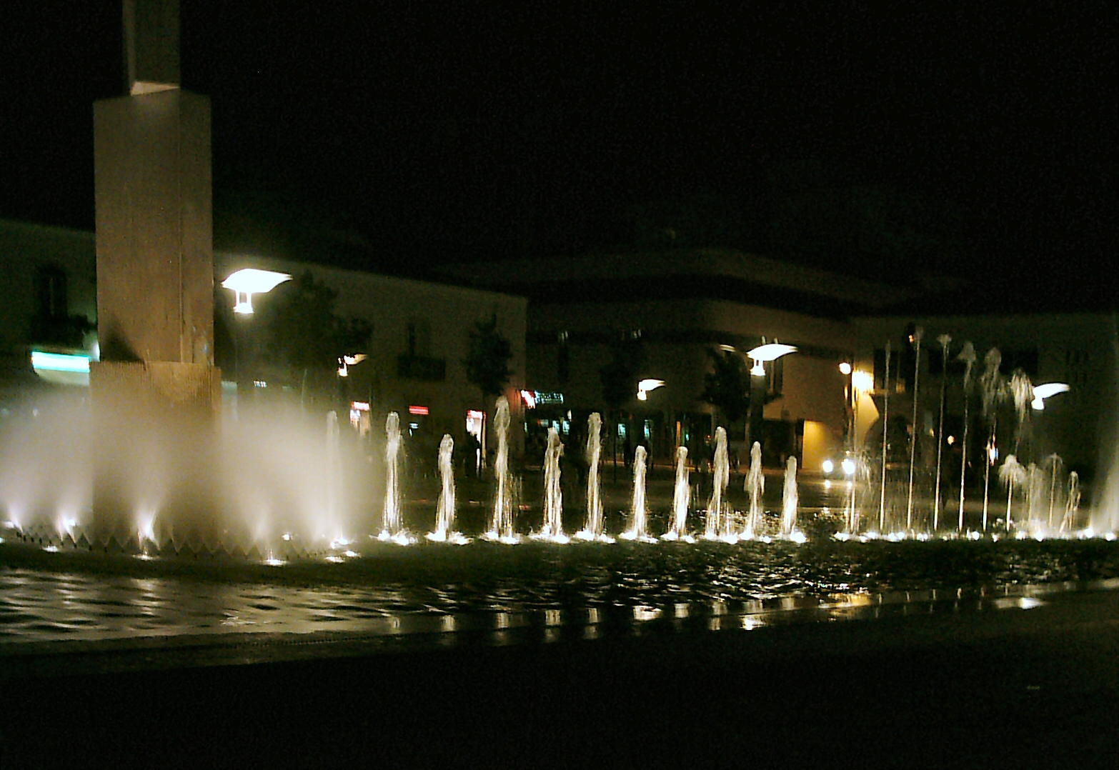 Fountain in the Praça Manuel Teixeira Gomes, Portimão, Algarve, Portugal